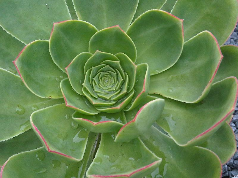 Aeonium urbicum in Kew Gardens, London, England.